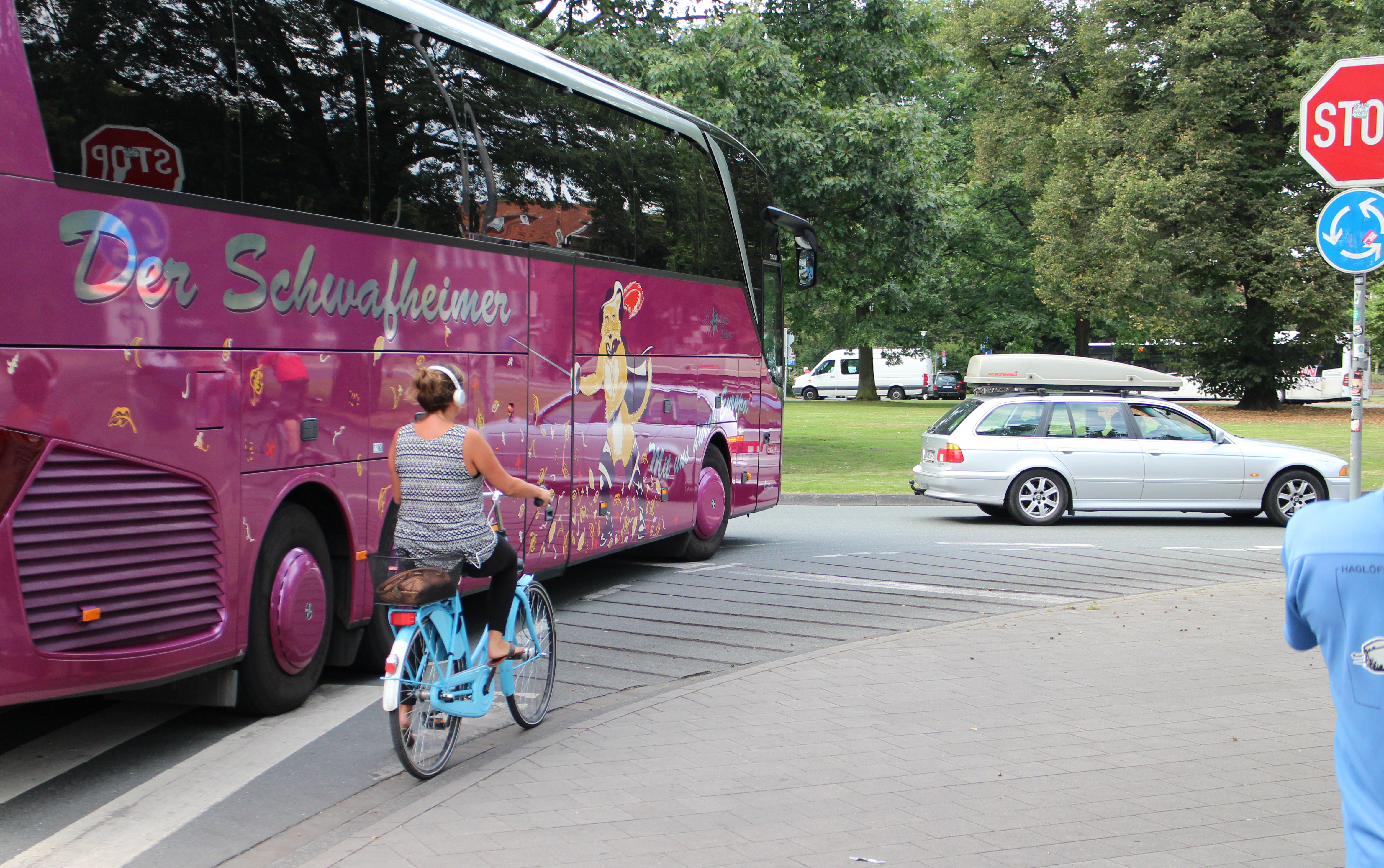 Germany / town Münster (Westfalen)